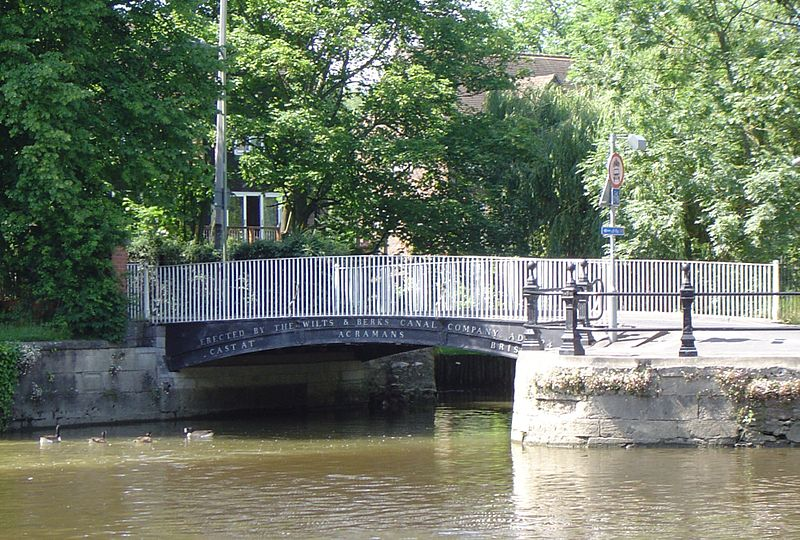 Confluence of rivers Ock and Thames, Abingdon, Oxfordshire (formerly Berkshire)